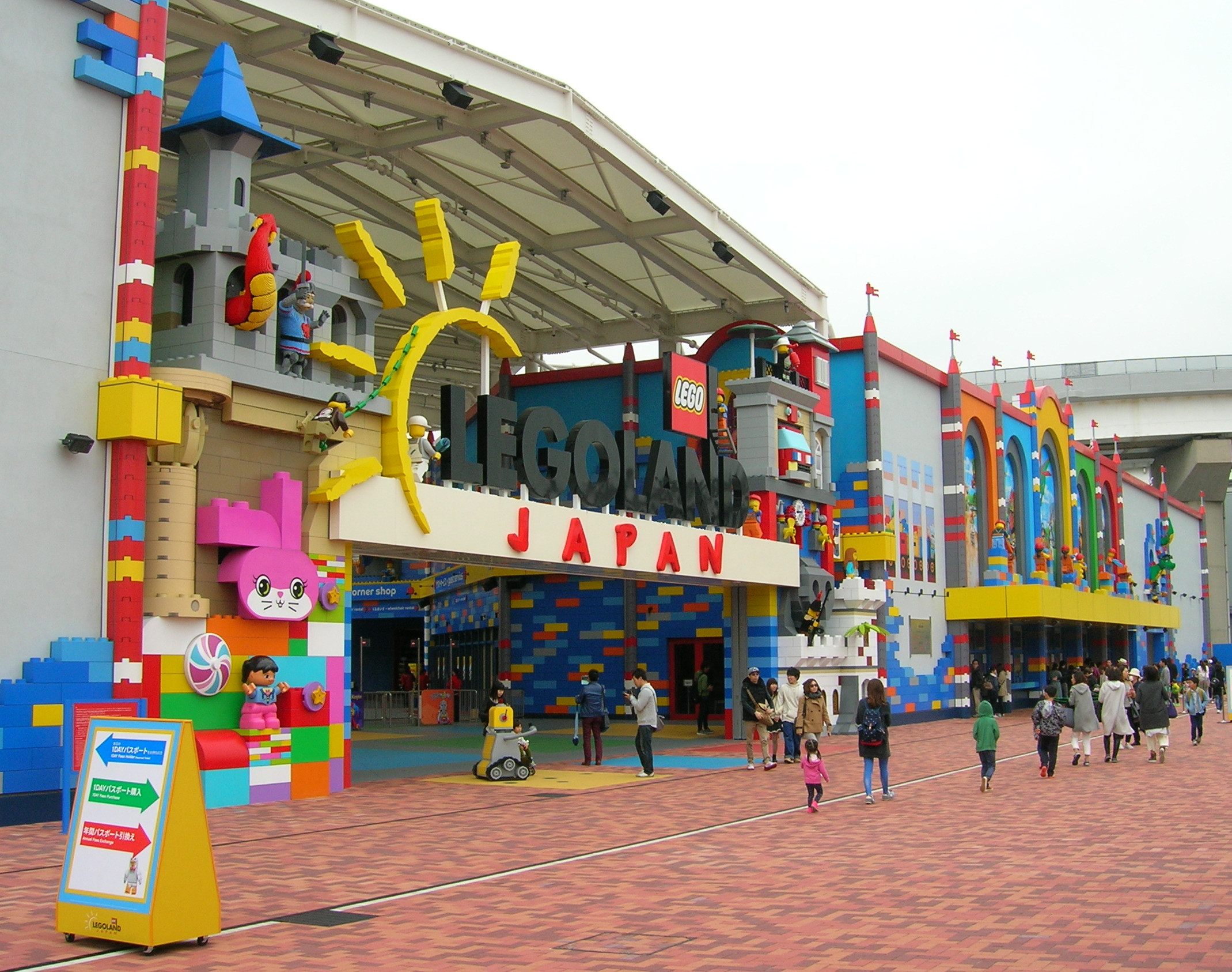 The entrance gate to Legoland Japan in Minato-ku, Nagoya, Aichi Prefecture, Japan